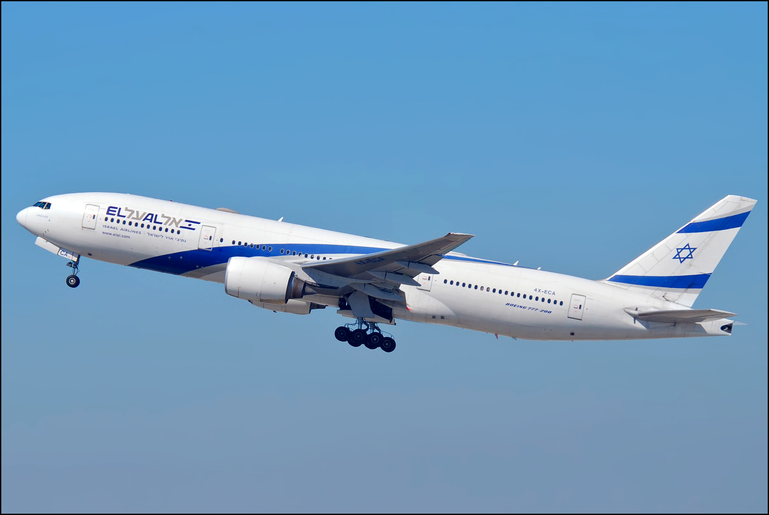 El Al Boeing 777-258ER aircraft 4X-ECA